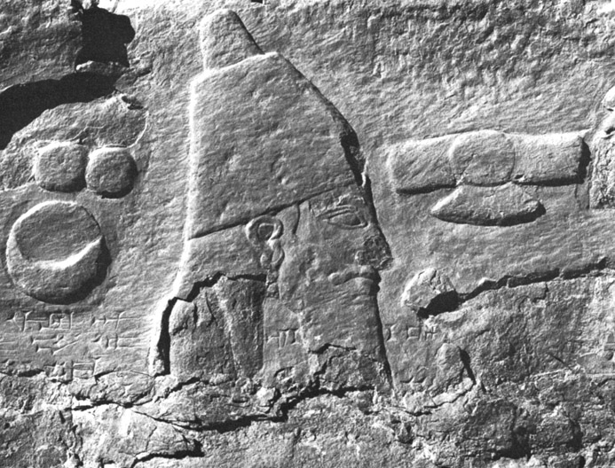 The Assyrian Royal Rock Relief from Shikaft-i Gulgul Cave, Ilam, Iran